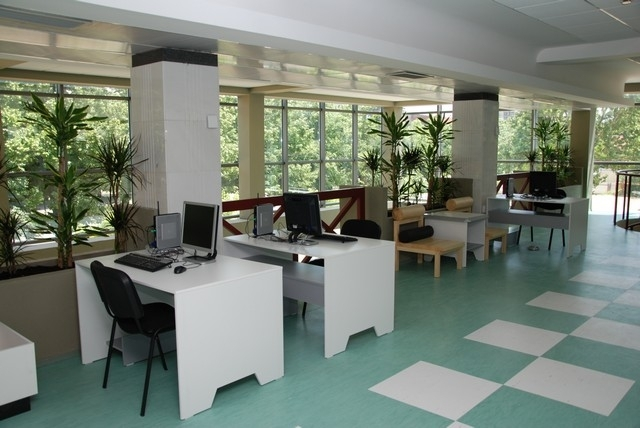 Catalog search in NUL "Kliment Ohridski" in Skopje